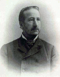 James Bowen Everhart, US Representative from Pennsylvania